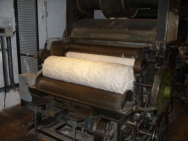 A restored scutcher (cotton breaker) at Quarry Bank Mill in the UK.